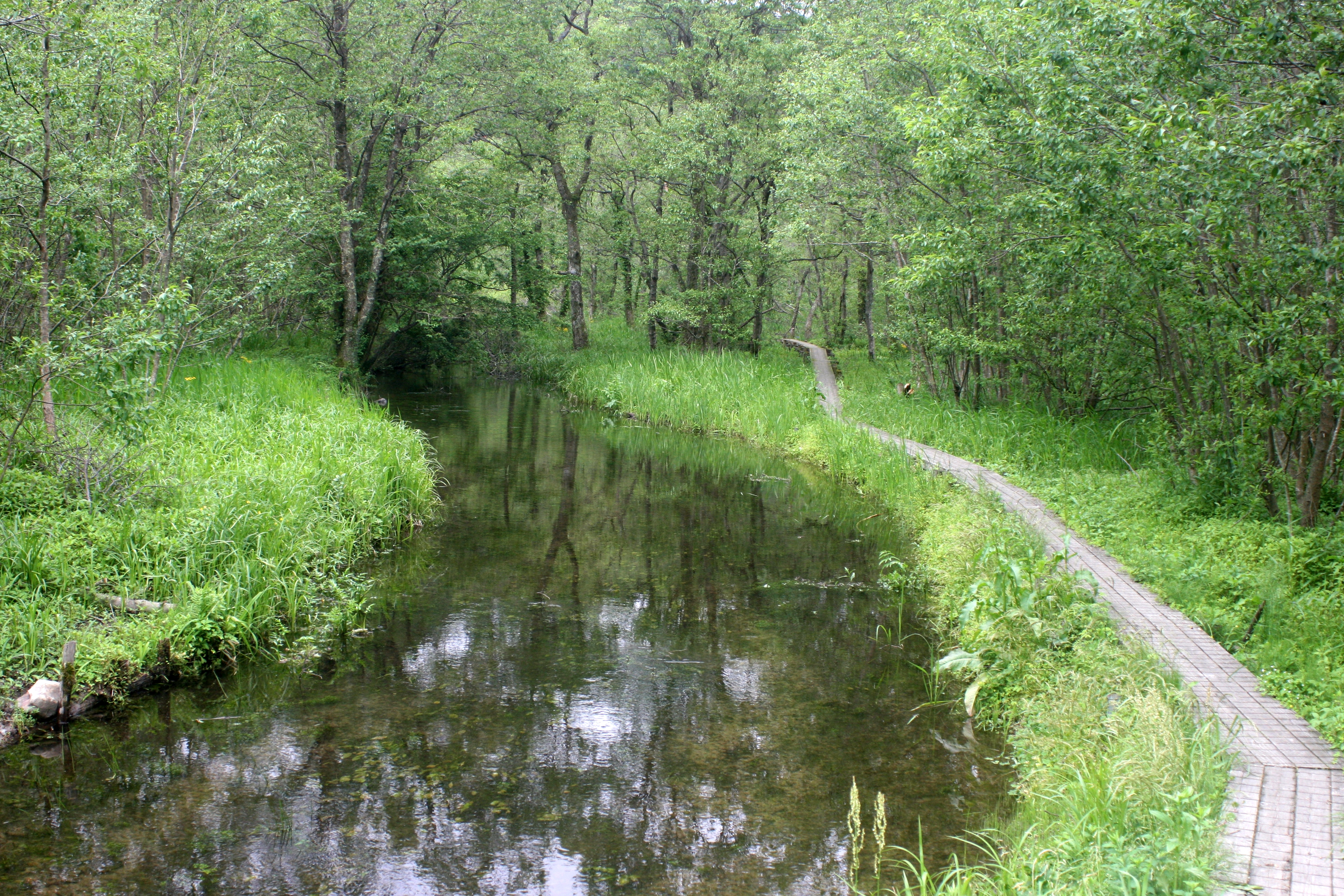 Early summer of Ikenokochi wetland.